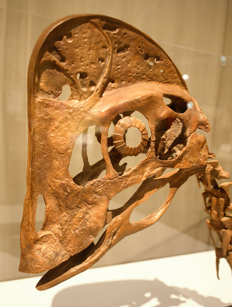 Restored skull and neck vertebra of Anzu wyliei (previously labelled as a specimen of Chirostenotes)